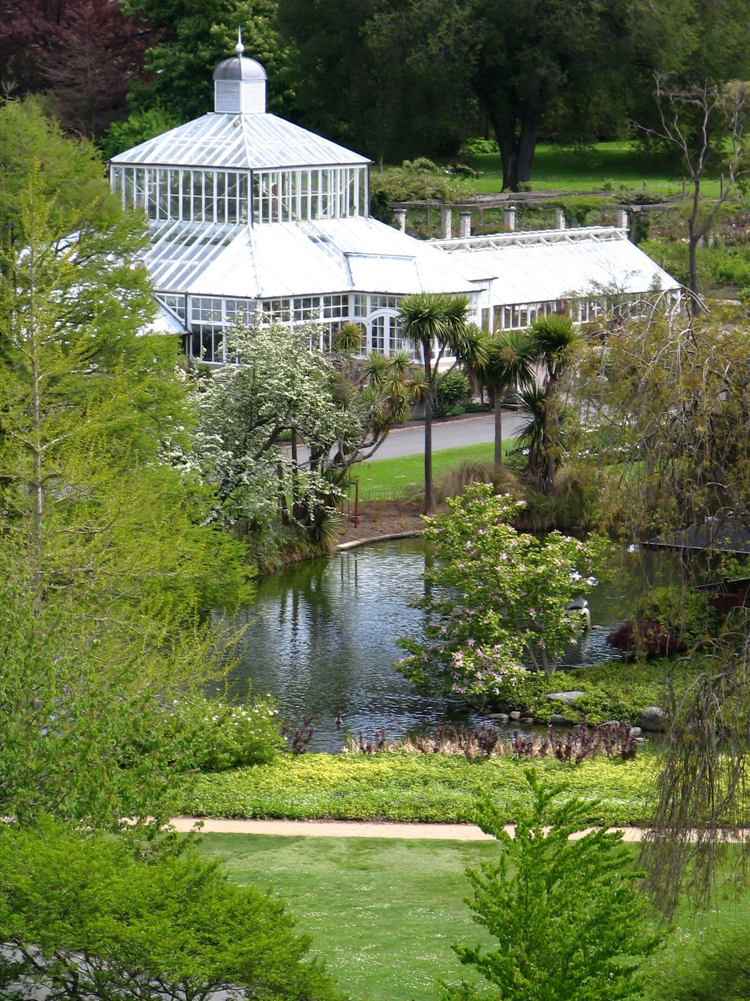 Dunedin Botanic Gardens in 2008, looking west across the duckpond, Dunedin, New Zealand.